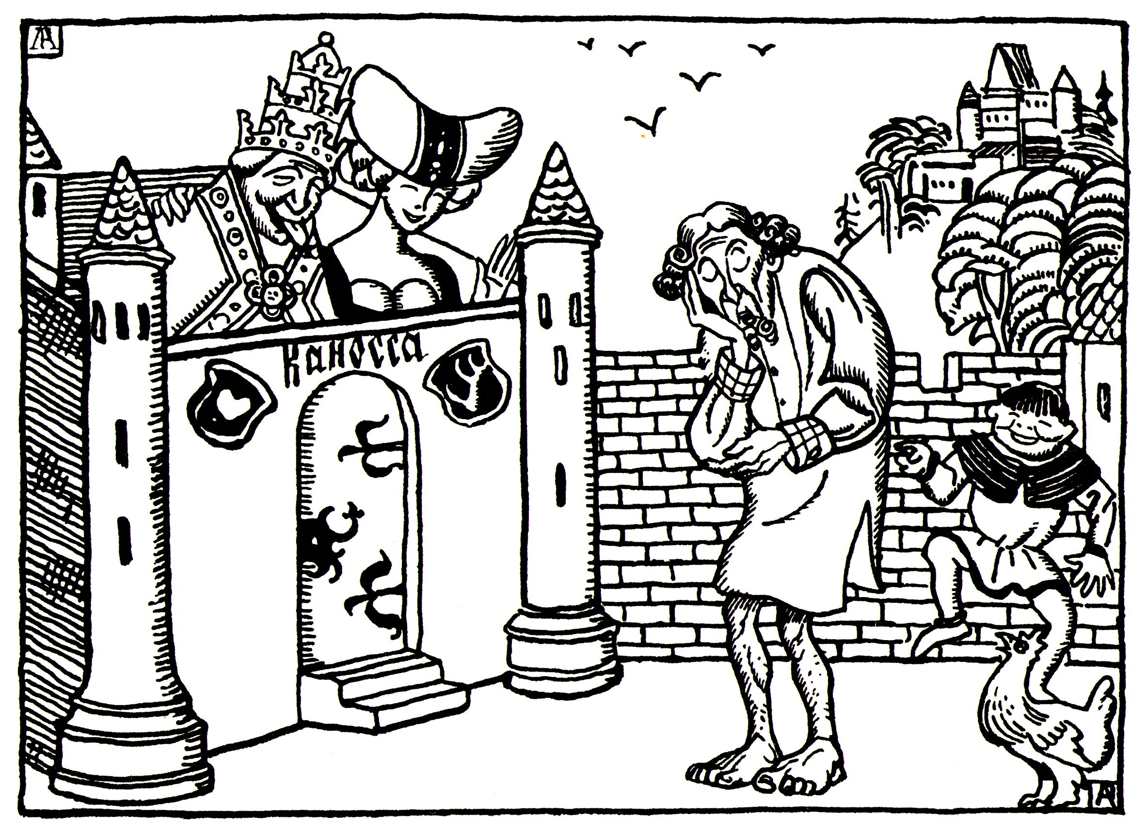 The illustration for the humorous book The General History Edited by Satyricon.The Walk to Canossa represented in a caricature way: repenting Henry IV before the Canossa Castle; Pope Gregory VII and Countess Matilda.